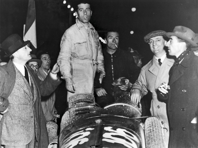 Entry #106 and WINNERS at Mille Miglia in Italy on 14 April 1935 was Carlo Pintacuda (standing) and marquis Alessandro Della Stufa (possibly stting, dark shirt/smoking) in an Alfa Romeo P3 (Tipo B; possibly the 1932 Alfa Romeo P3 Tipo B 5001[1]). They were part of the Scuderia Ferrari team.[2] Team manager Enzo Ferrari is second from right (smiling, caps), while to the right (smiling cigarette) is motor journalist Giovanni Canestrini.[3]